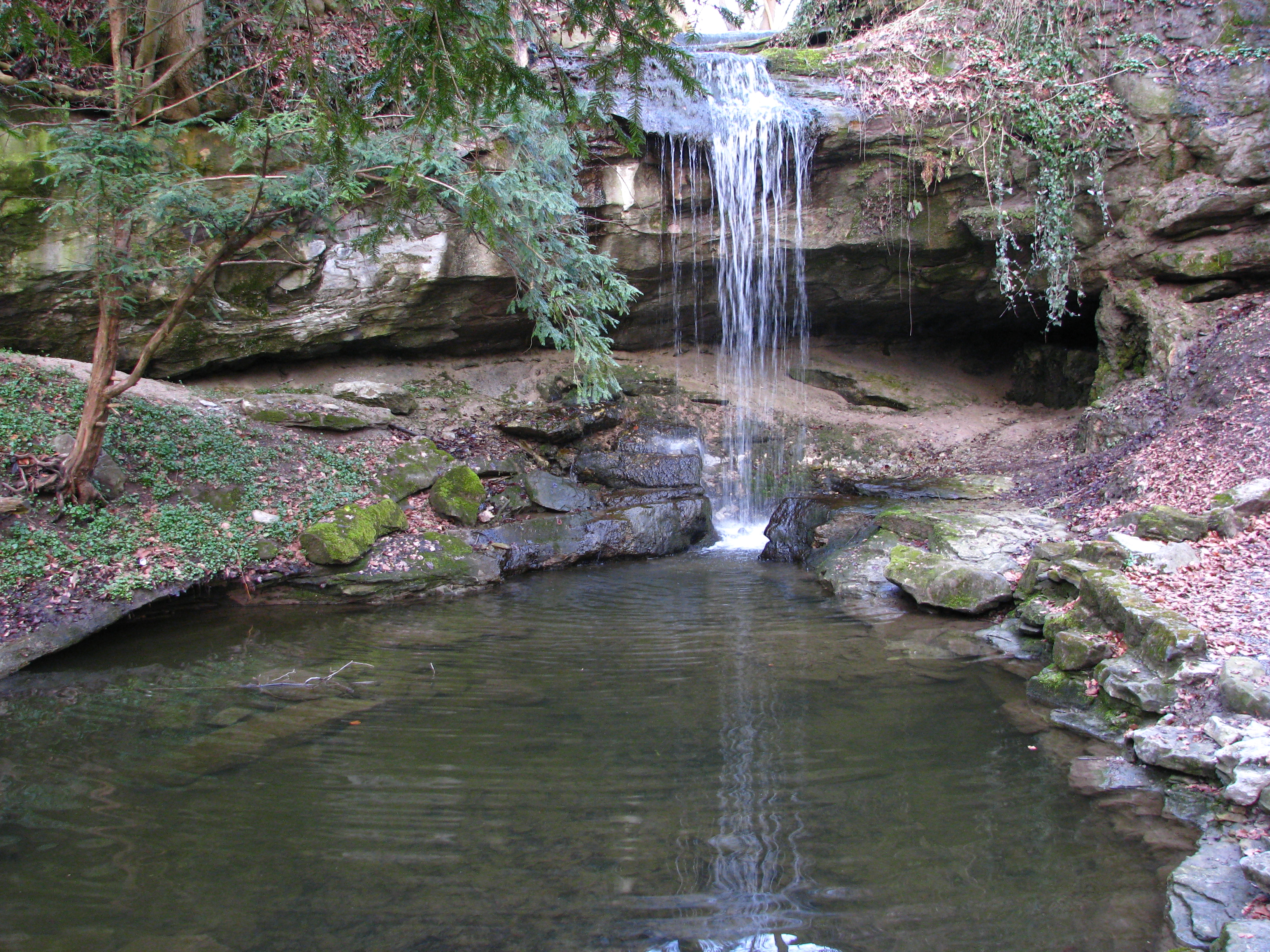 Risitobel on southern Pfannenstiel slope in Uetikon am See (Switzerland)